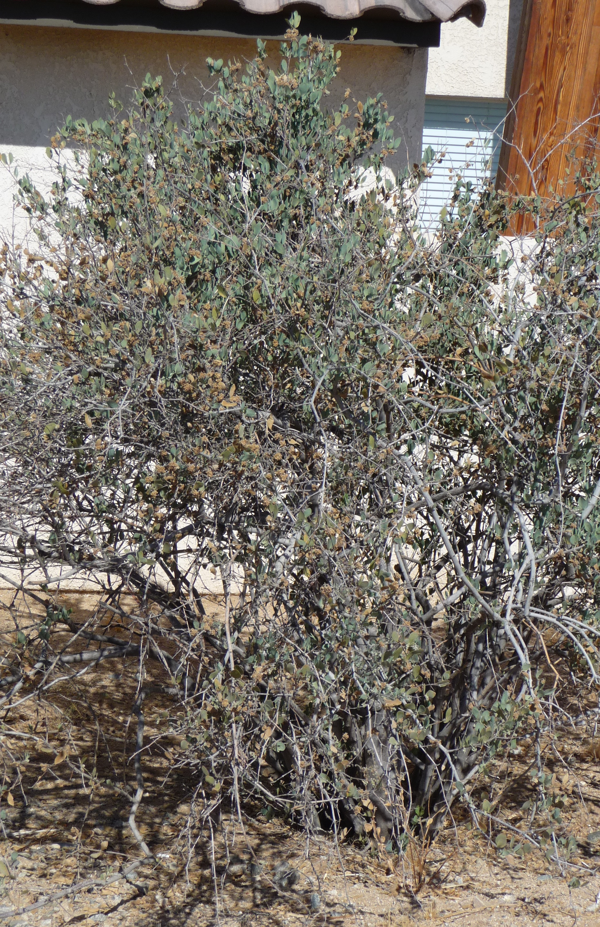 Joshua Tree National Park - Jojoba (Simmondsia chinensis)